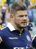 2017.06.17.15.04.43-AUSvSCO anthems-0001 The 2017 mid-year rugby union international, 17 June 2017, Australia vs Scotland at Allianz Stadium, Sydney